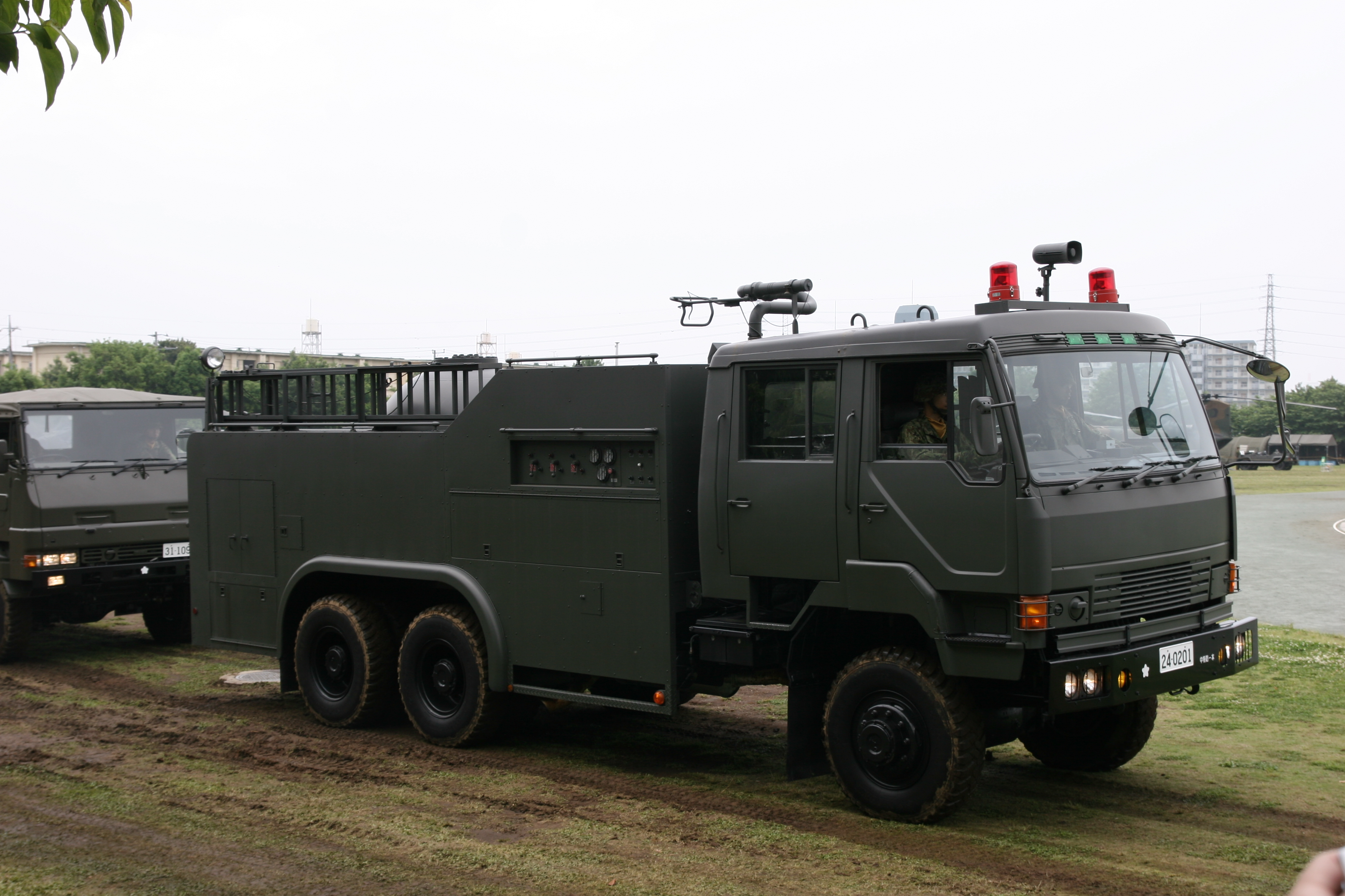 Chemical fire engine of Central Nuclear Biological Chemical Weapon Defense Unit.